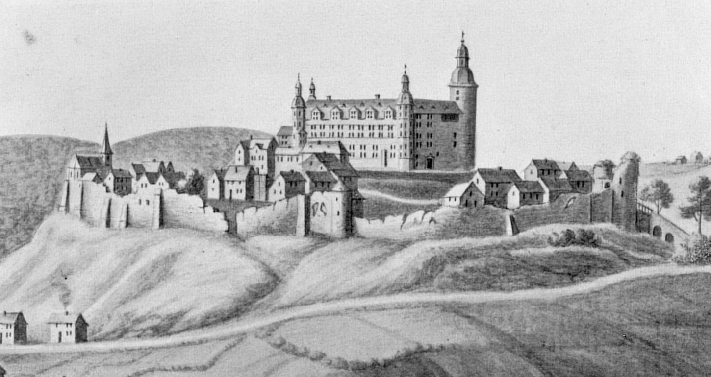 Reifferscheidt Castle in Hellentahl, ink drawing